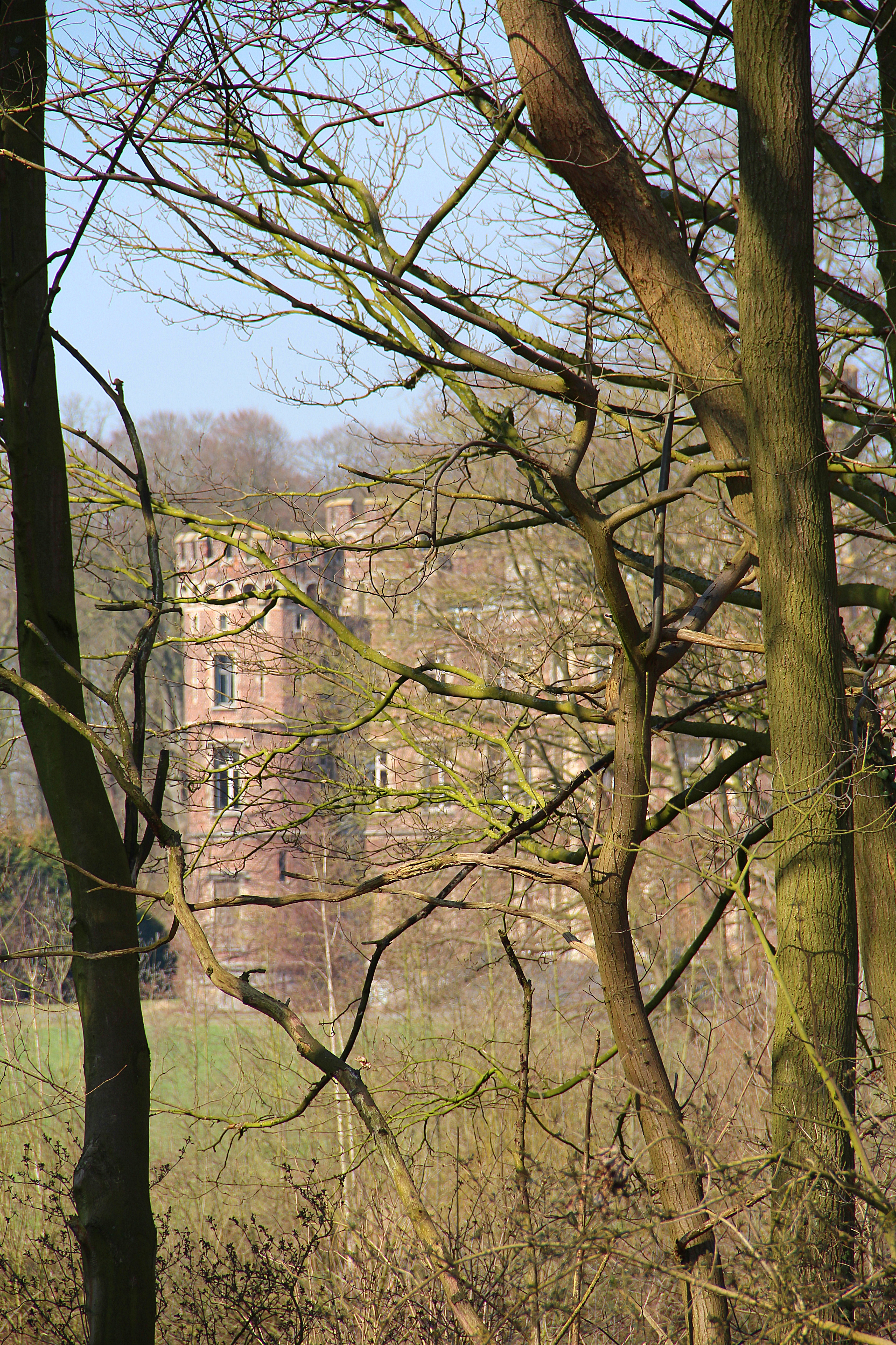 Moulbaix (Belgium), the neo-Gothic castle of the de Chasteleer family (XIXth century).